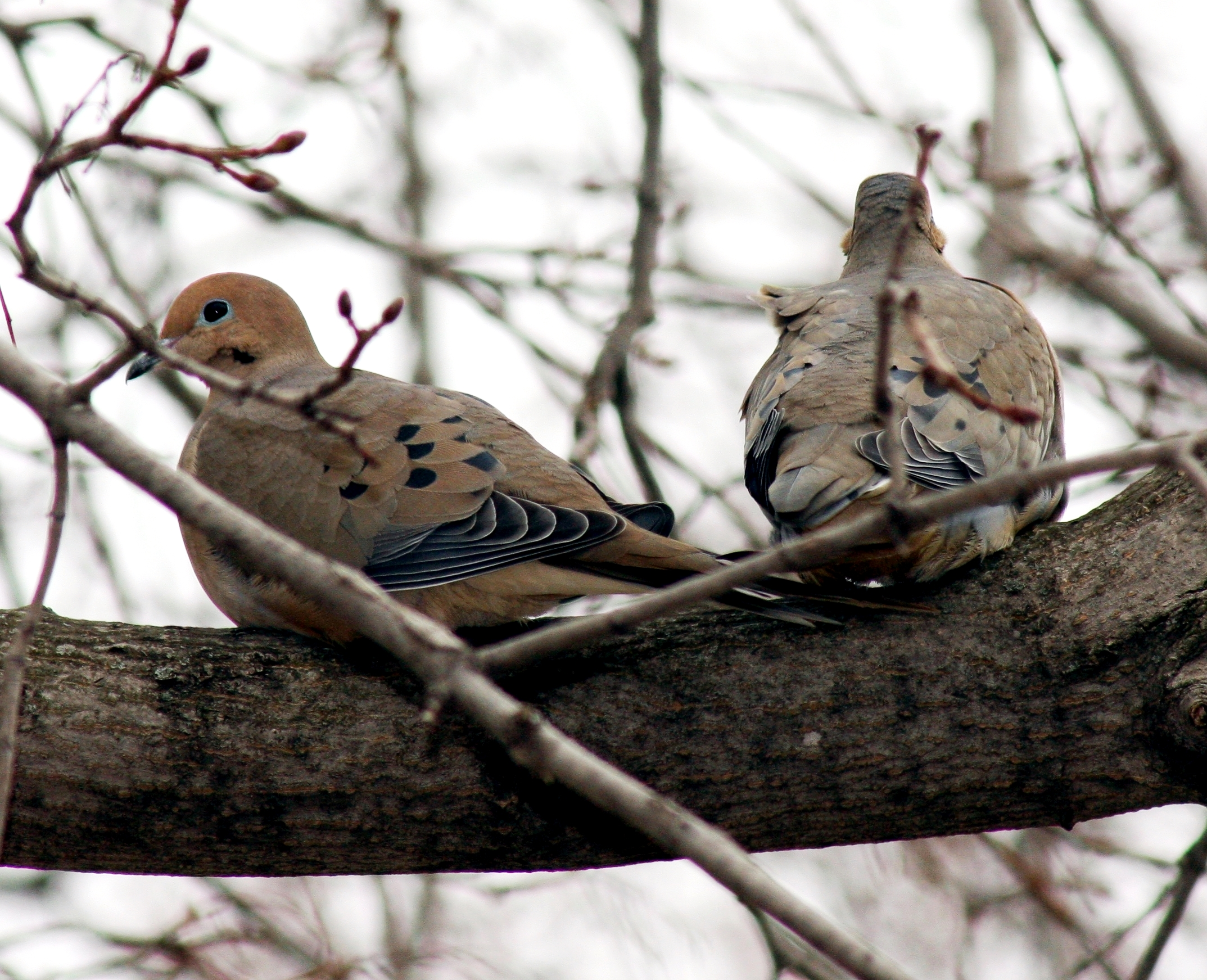 Zenaida macroura (common names: Mourning Dove, Turtle Dove) pair in winter.